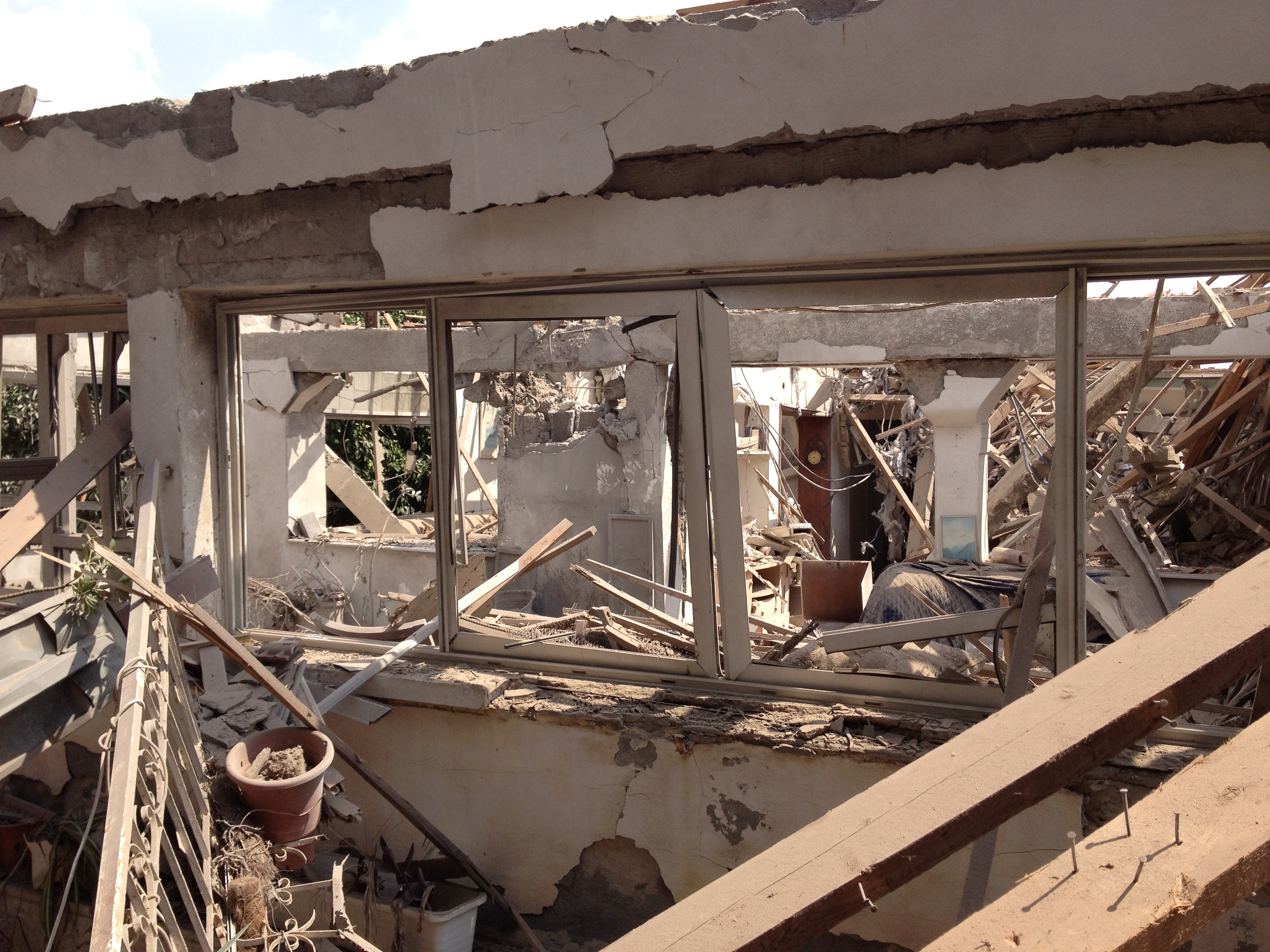 September 9th, 2012: A rocket (probably an improved 122mm BM-21 Grad) fired by Palestinian terrorists from the Gaza Strip completely devastated a house in Netivot (a town in southern Israel), by luck no one got killed.